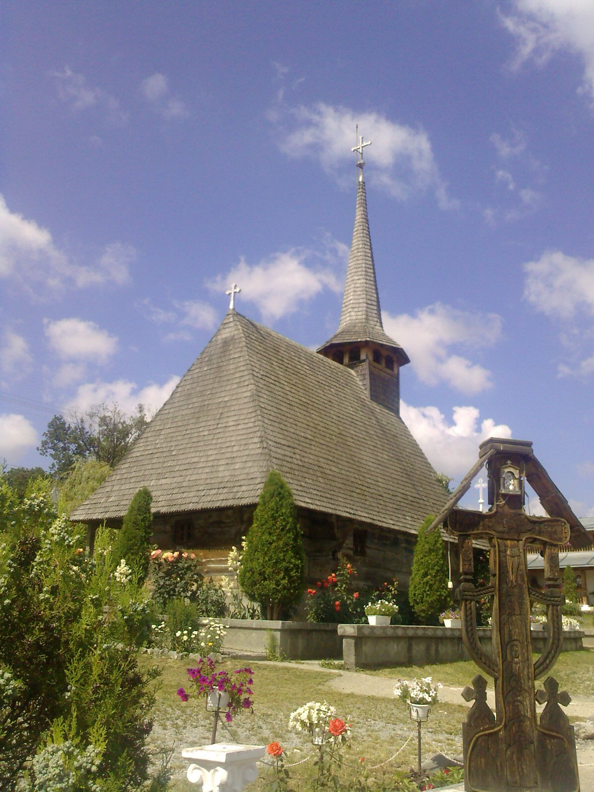 Wooden Church in Stâna, Sălaj County, Romania